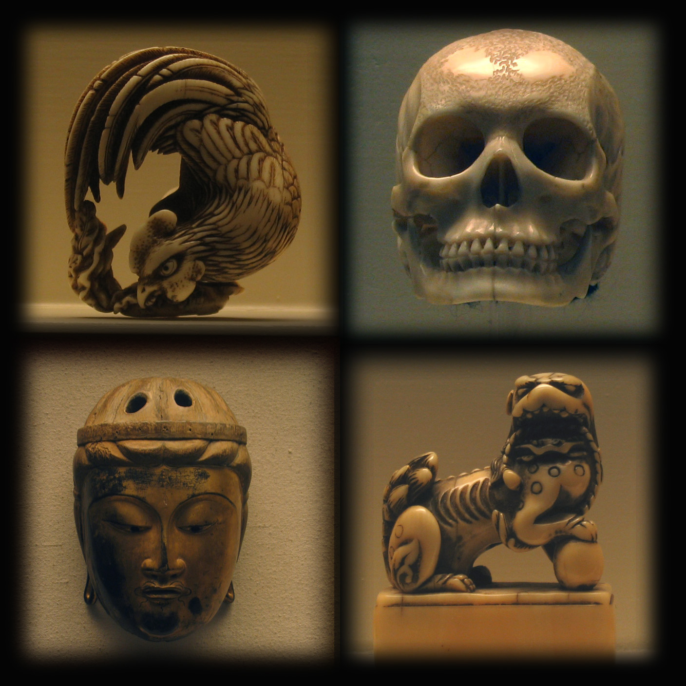 4 ivory netsuke from the Victoria and Albert Museum's collection. Japan 18th-19th Centuries. Netsuke were a kind of toggle used to hold purse strings fastened.